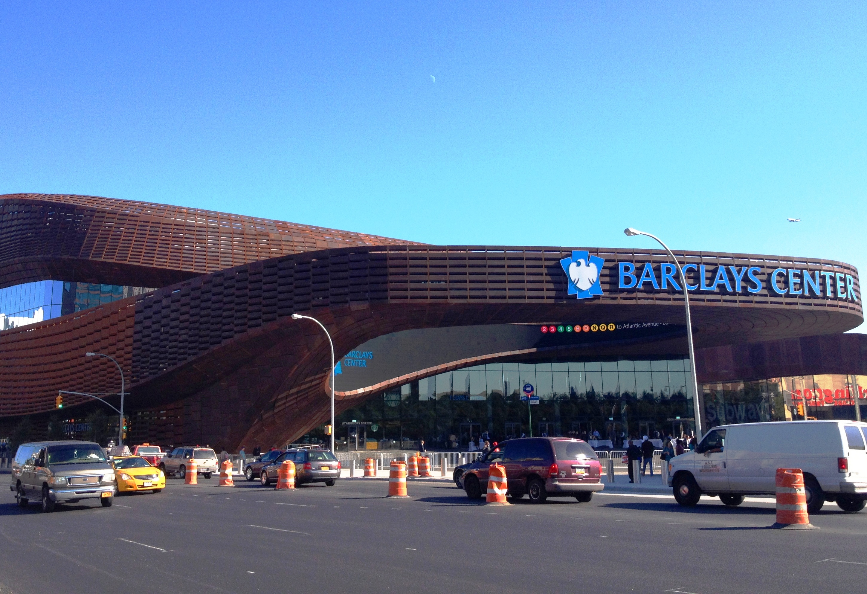 Picture of the Barclays Center in Brooklyn, NY